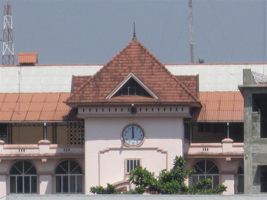 Mini Civil Station